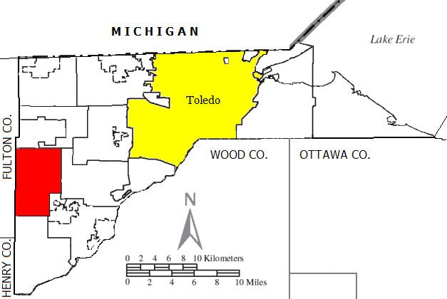 Made by the US Census and modified by myself